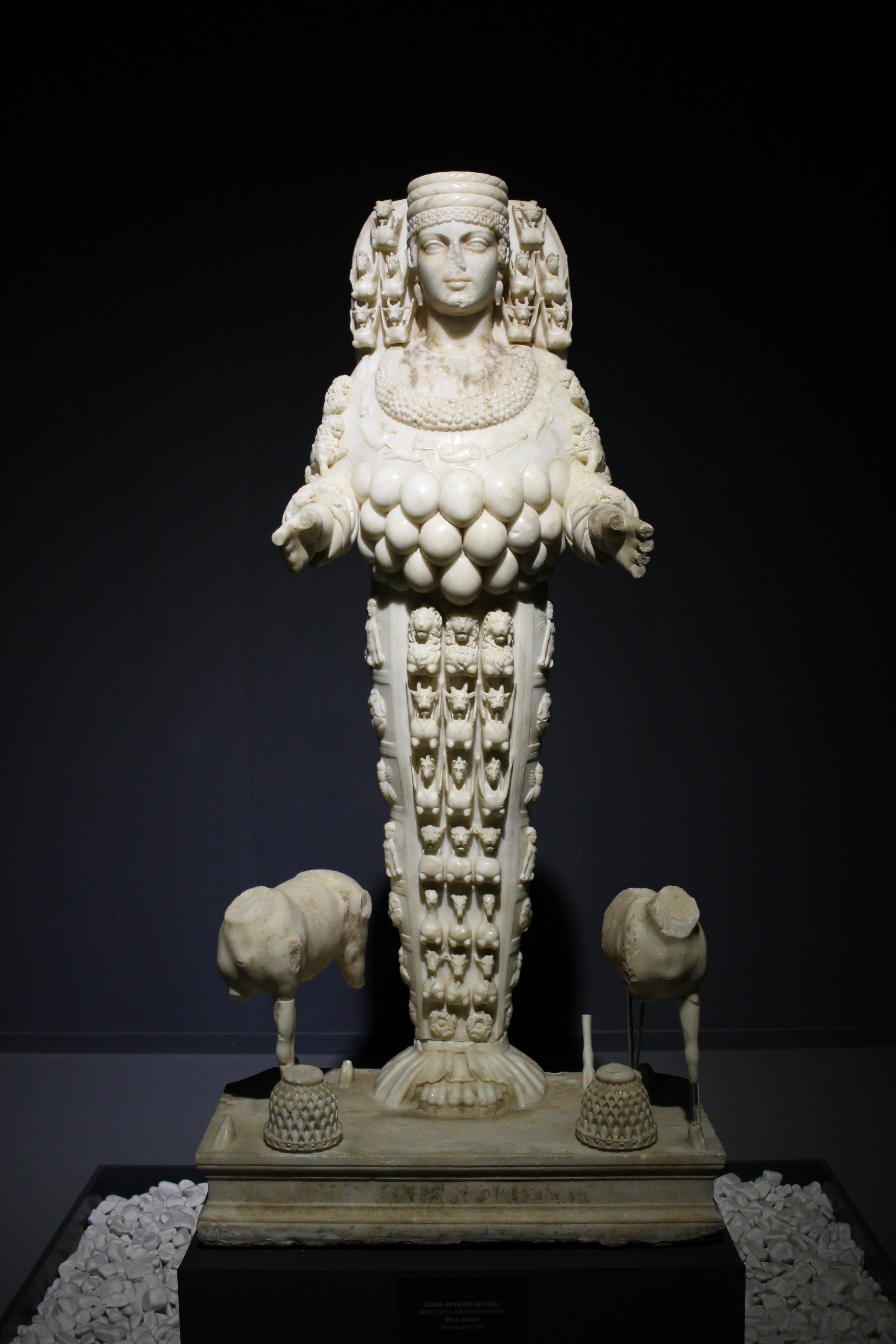 The Artemis of Ephesus, 1st century AD (Ephesus Archaeological Museum)